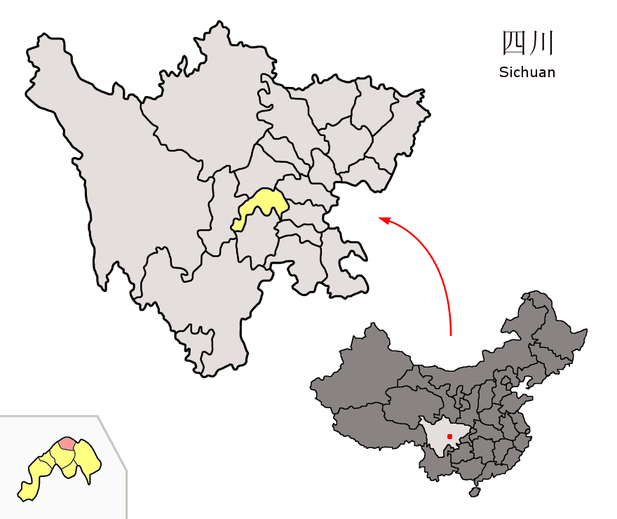 Location of Pengshan County (pink) and Meishan Prefecture (yellow) within Sichuan province of China Map drawn in october 2007 using various sources, mainly : Sichuan province administrative regions GIS data: 1:1M, County level, 1990 Sichuan Counties map from